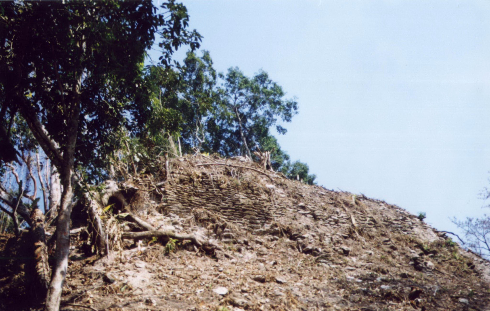 Maya pyramid at Motul de San José, Petén, Guatemala. Terminal Classic.